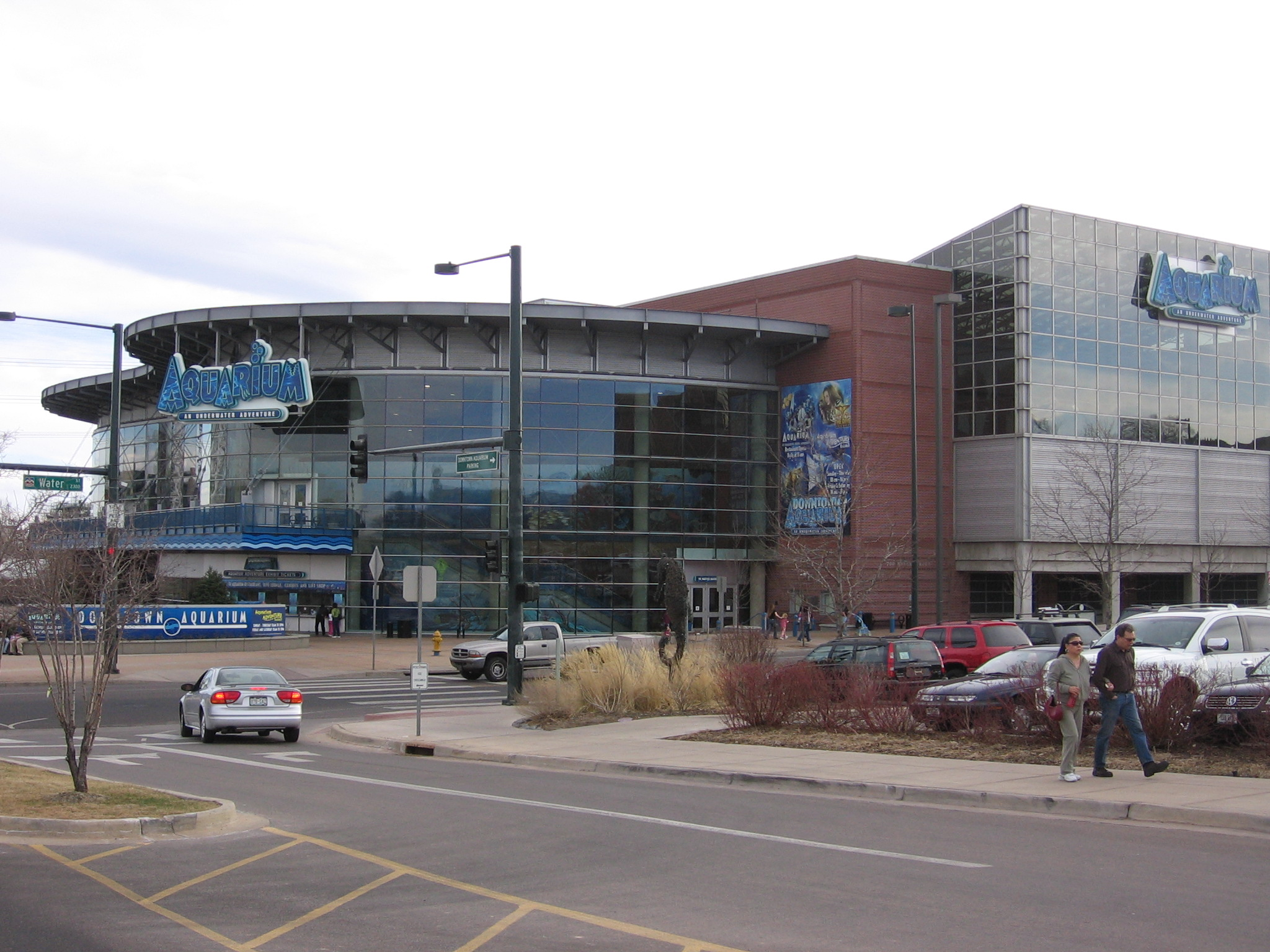 Exterior view of Denver's Downtown Aquarium by Ginkgo100